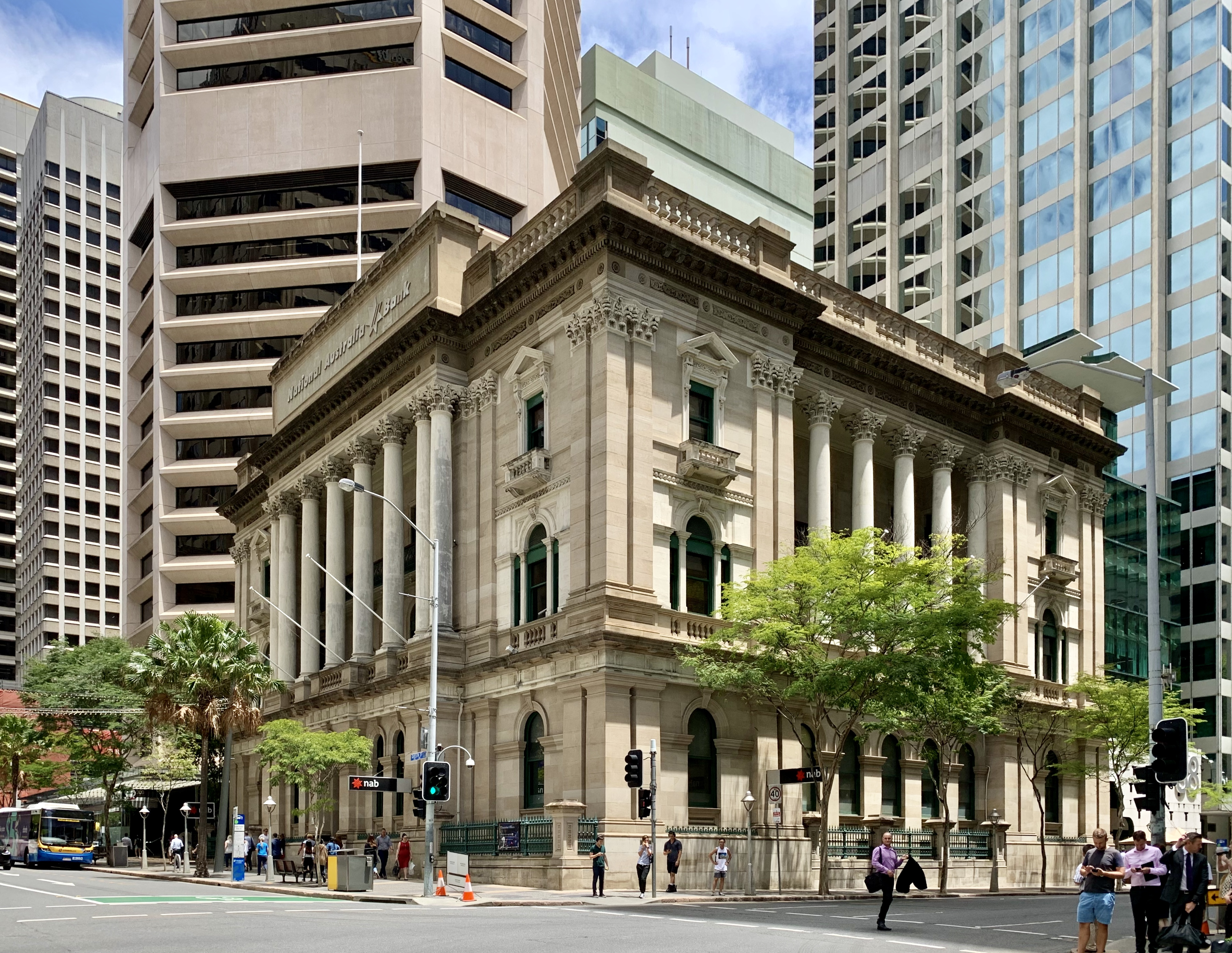 National Australia Bank building, 308 Queen Street, Brisbane